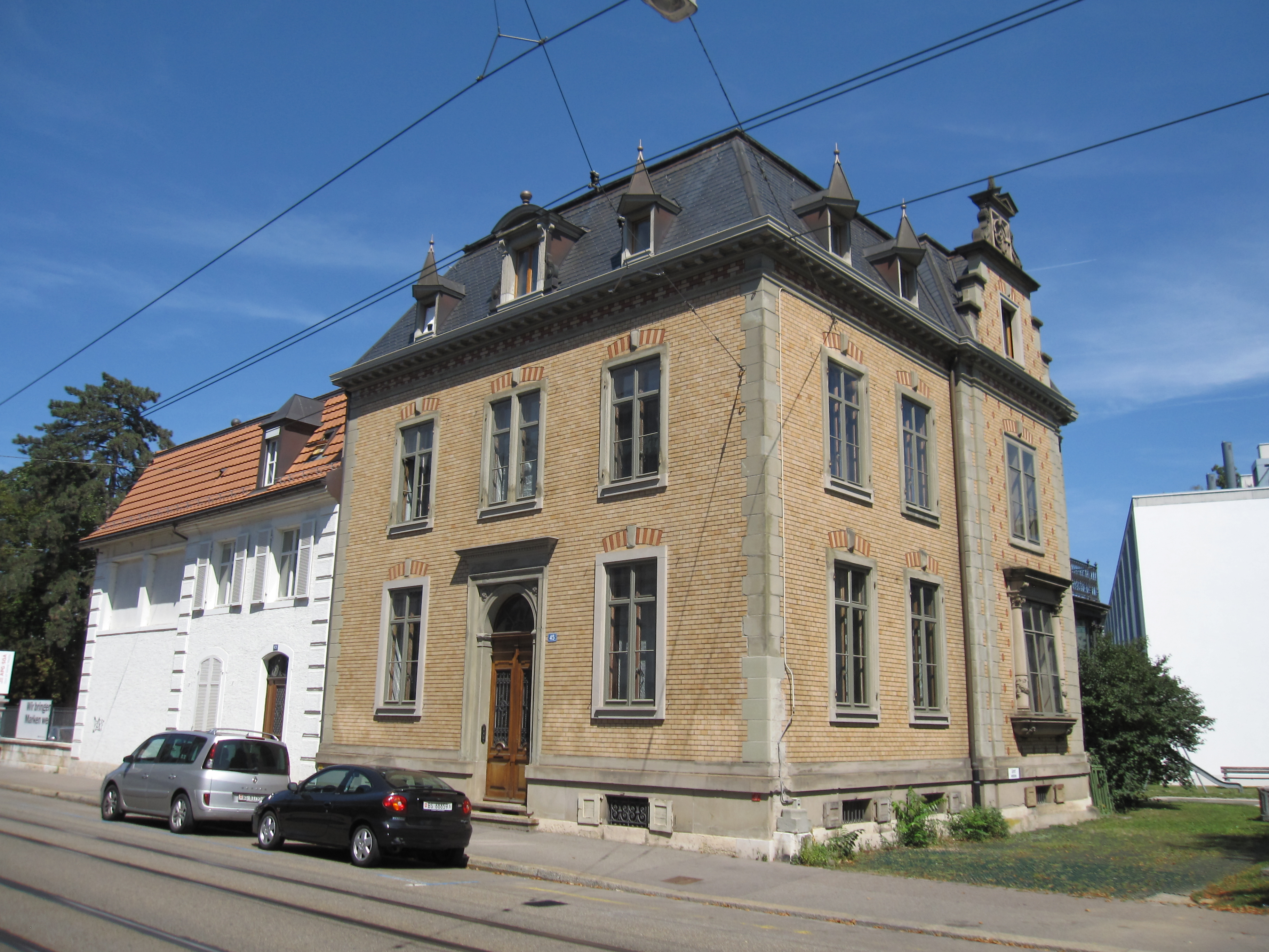 Villa Burckhardt-Bischoff at Hardstrasse 45 in Basel, constructed by Rudolf Linder (1849–1928) in 1886.